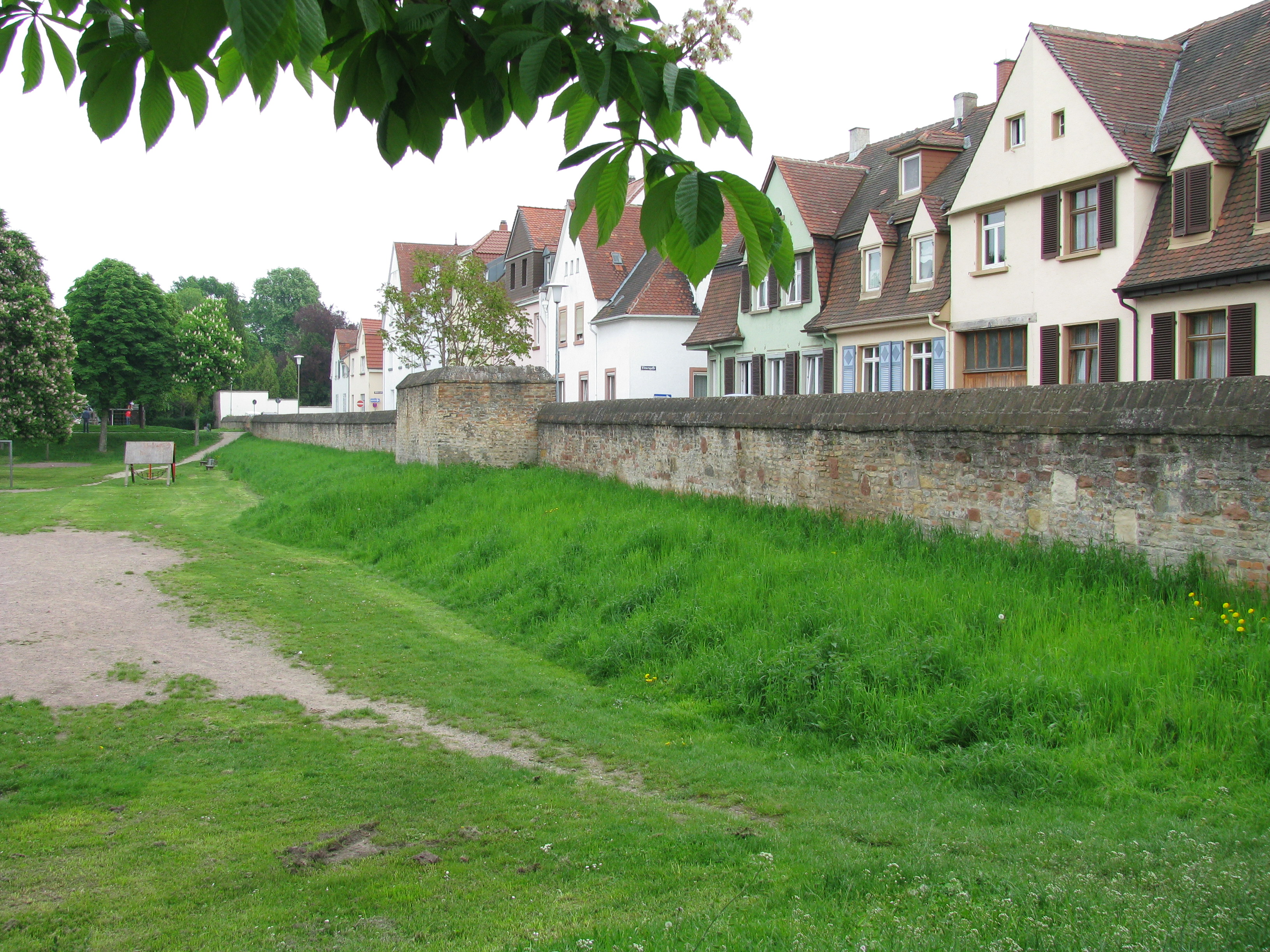 Speyer: Section of city wall along Eselsdamm. The moat is used for recreation facilities (e. g. playgrounds and a little football (soccer) field).